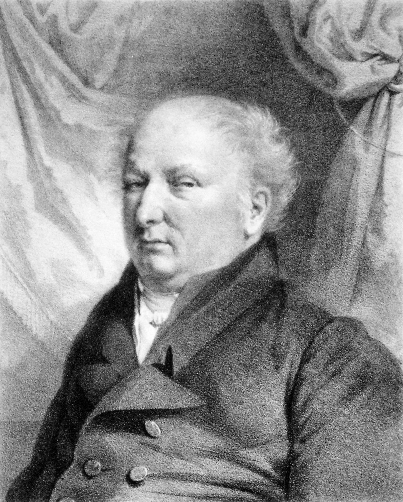 Johann Jakob Freiherr von Geymüller (1760-1834), Swiss banker